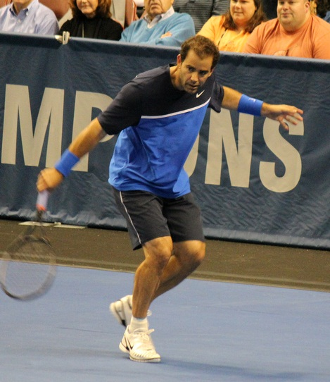 Pete Sampras, playing in Champions Shootout, Philadelphia